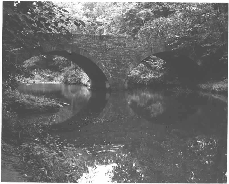 Side of the Bridge in Lykens Township No. 1, which carries Legislative Route 22001 over Pine Creek near Erdman in Lykens Township, Dauphin County, Pennsylvania, United States. The bridge is listed on the National Register of Historic Places.